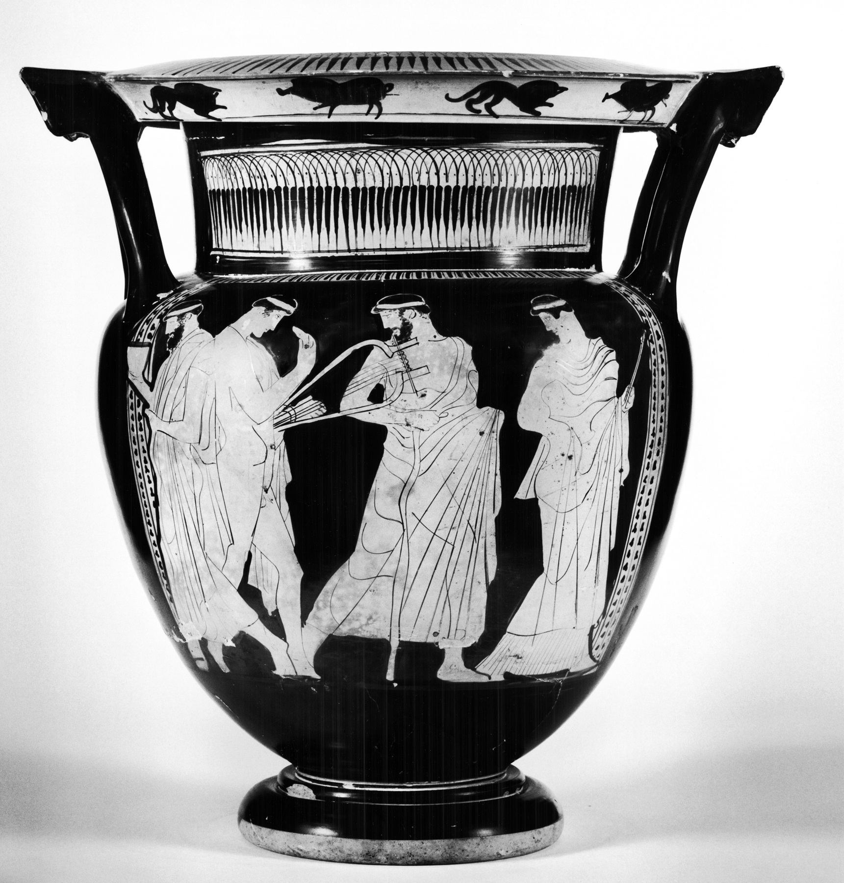 This red-figure column-krater depicts a komos. On the front are three males and a woman. On the left, a bearded, mantled man moves left, looking at a skyphos (less handles) which he holds up in his right hand; a staff is in the left. He wears a thick fillet in reserve around his head. Part of the front of the figure and skyphos extend into and beyond the left border of the picture field. The front of his right foot has been covered with glaze. Behind him a youth with barbiton moves right. He has a mantle draped over his left shoulder and a similar band around his head. In his right hand he holds up a plectron. In front of him a bearded, mantled man moves right, looking around. He has a staff in his right hand and a band around his head. On the far right is a woman wearing a chiton, mantle, necklace, and fillet moving right and looking around. She holds a pair of auloi in her left hand. Her left foot overlaps the right border of the picture field. The short cropped hair gives her an androgynous appearance, suggesting that the painter might have been confused as to the sex of the figure. On the back are three maenads. On the left a woman in a chiton and mantle who holds a thyrsos in her right hand stands in profile to the right. In the center another woman in a chiton and mantle stands to the left, extending her right arm. On the right a third woman in chiton and mantle moves left, looking around. A bag hangs between the last two figures. On the rim are silhouettes of confronted lions and boars.